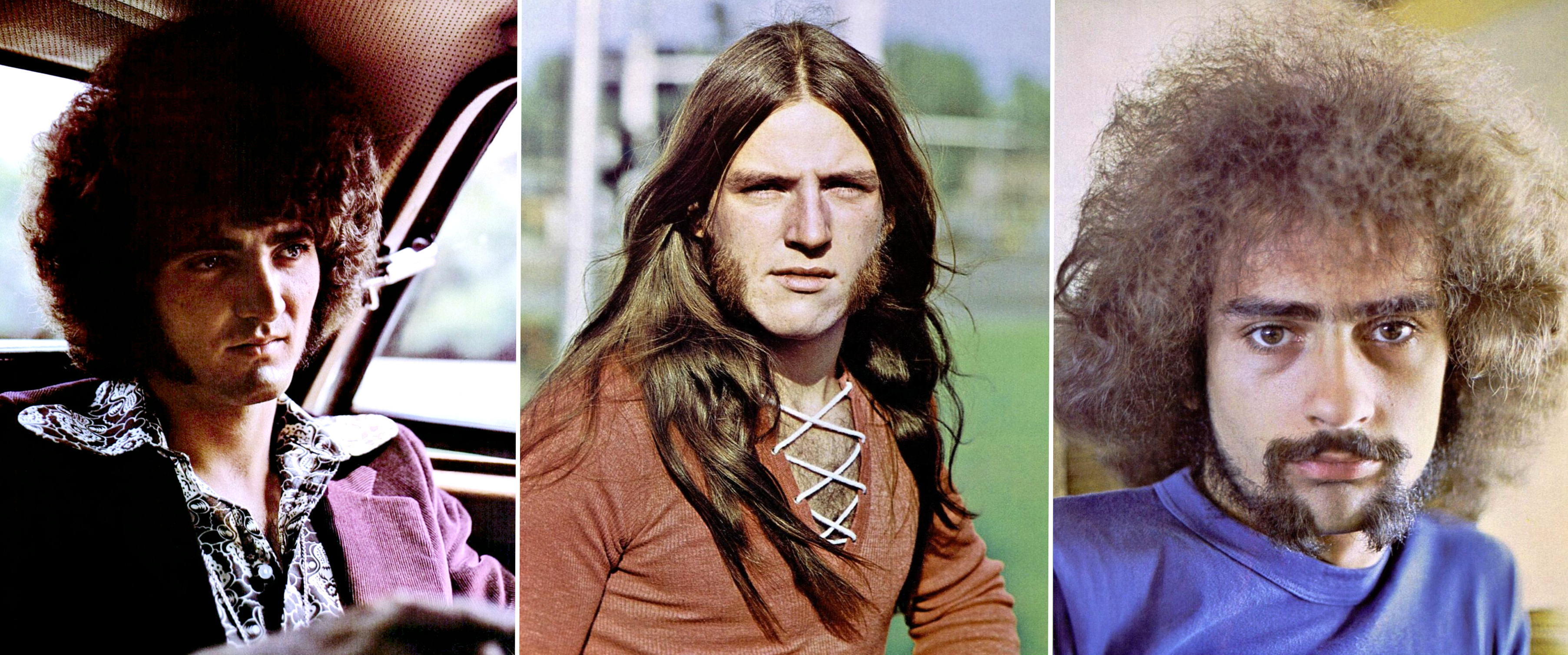 Three core members of 'Grand Funk Railroad', November 1971 (Don Brewer, Mark Farner, and Mel Schacher). Compiled by Misterpither.